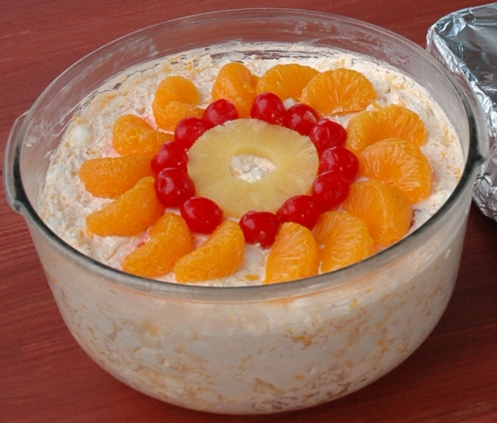 A photo of an Ambrosia salad, cropped from the original source using iPhoto.